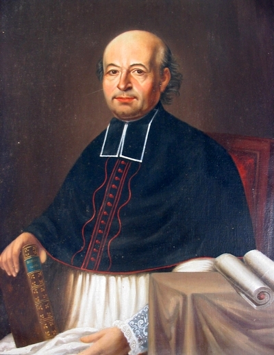 Catholic priest, declared Venerable the 12th December 2012 by Benedict XVI.